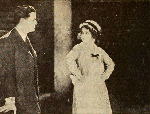 Still from the American film Room and Board (1921) with Constance Binney and Thomas Carrigan, on page 62 of the December 1921 Photoplay.